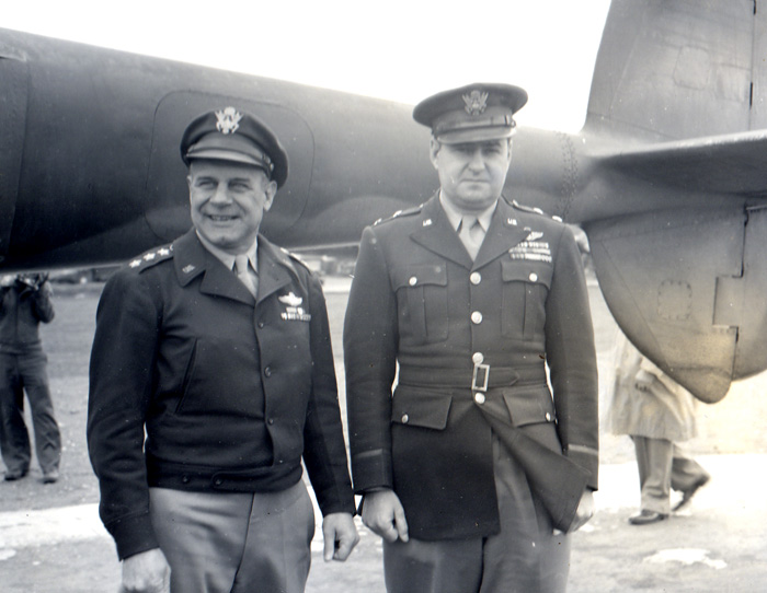 Photograph of General Jimmy Doolittle taken in 1945 at Eight Air Force HQ in High Wycombe, England. Photograph taken by Philip B. Foote, photo now in the possession of Googie Man. The photographer is now deceased and he gave all rights to this image to the uploader.